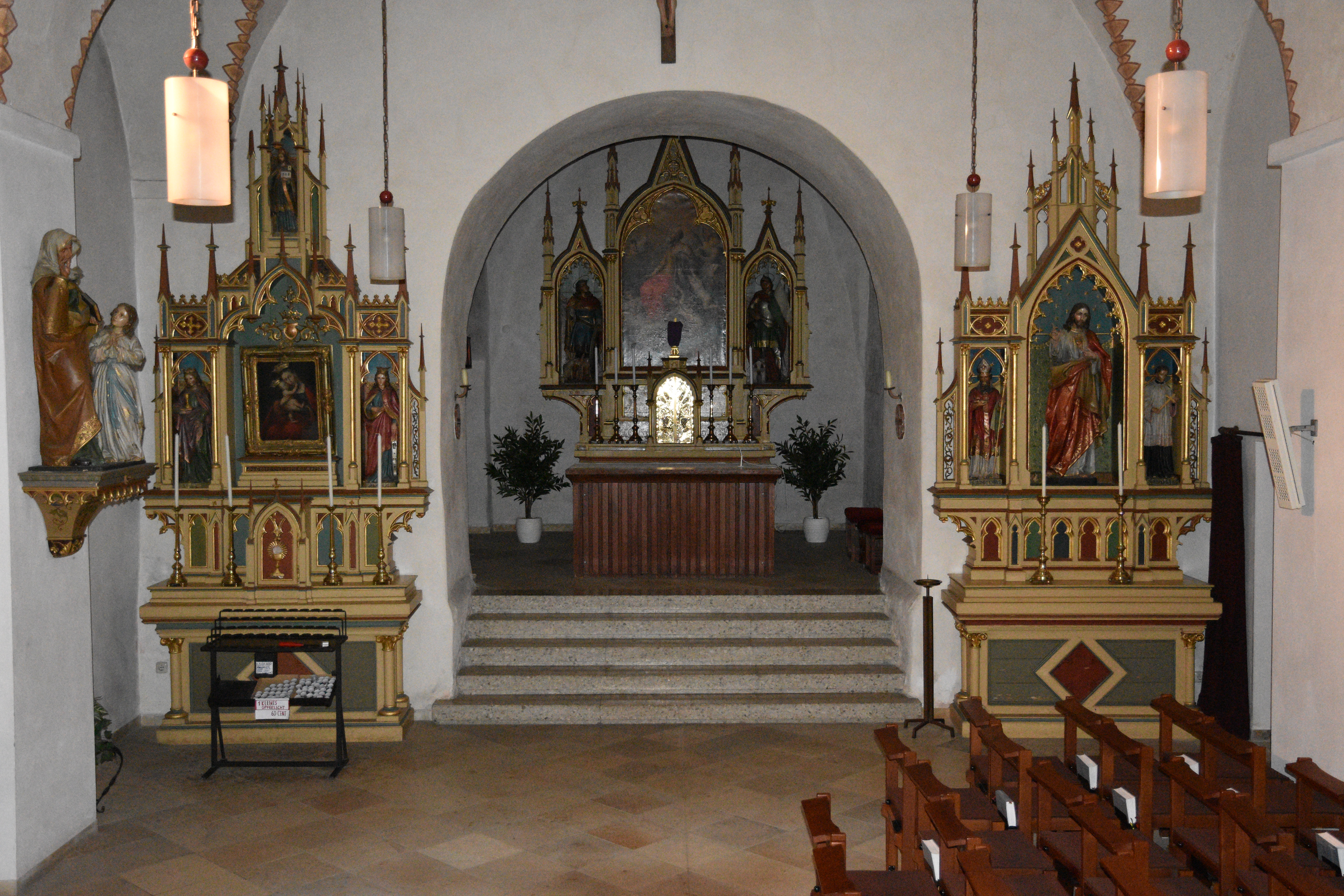 Church hl. Bartholomäus, Hochneukirchen - Interior